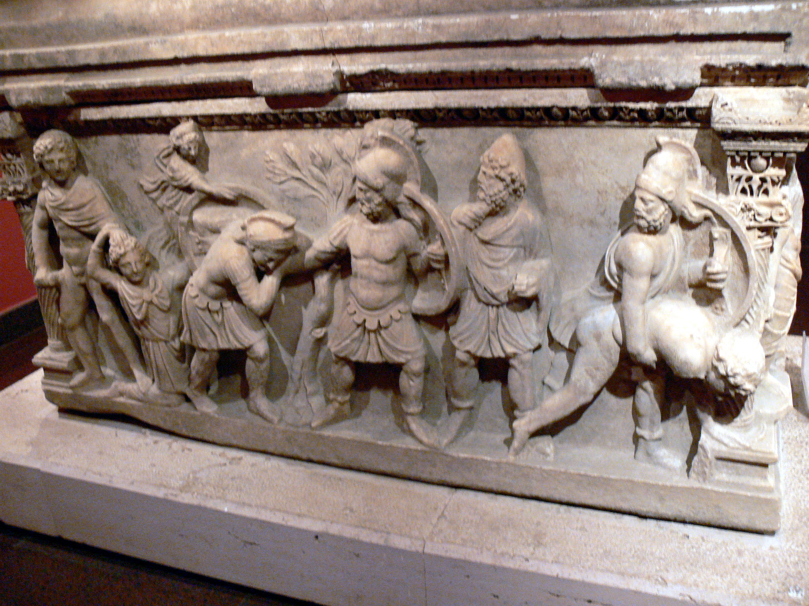 Antalya Archaeological Museum. Ancient Roman sarcophagus of Aurelia Botania Demetria ( 2nd century AD ): Scenes of the Trojan war.